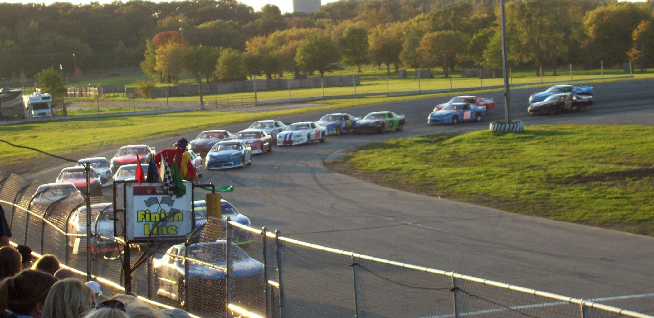 The field takes the green flag at the final 2006 Mid-American Stock Car Series race. Taken at the final stockcar races at Lake Geneva Raceway in Lake Geneva, Wisconsin, USA on October 1, 2006.